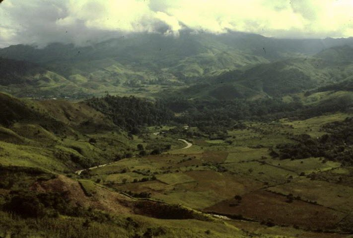 Image of Río Blanco in the municipality of Protección, department of Santa Bárbara, Honduras photographed on the ridge road between the aldeas of El Chile and La Ruidosa.